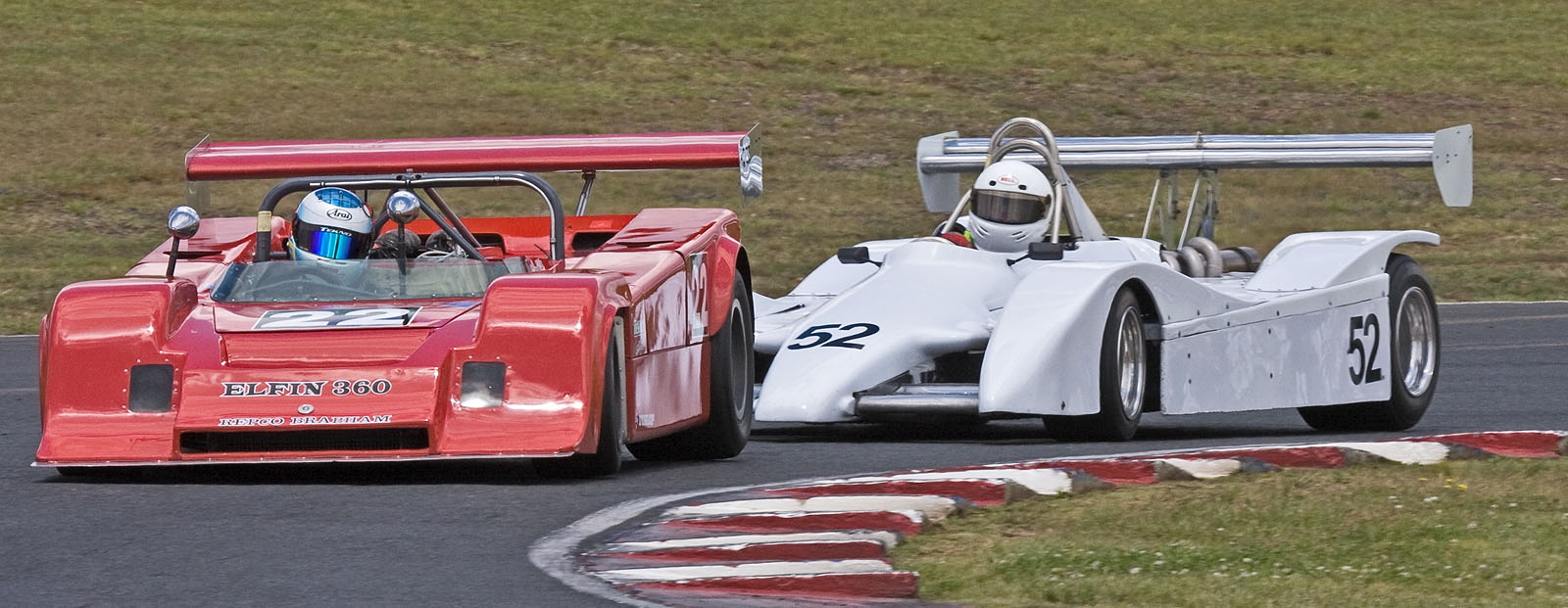 The 1971 Elfin 360 Repco of Steve Webb leads the 1979 Ralt RT2 of Jamie Larner at Eastern Creek on 29 November 2008. Henry Michell had won the 1974 Australian Sports Car Championship at the wheel of this Elfin and Greg Doidge won the 1978 Australian Tourist Trophy with the same car.